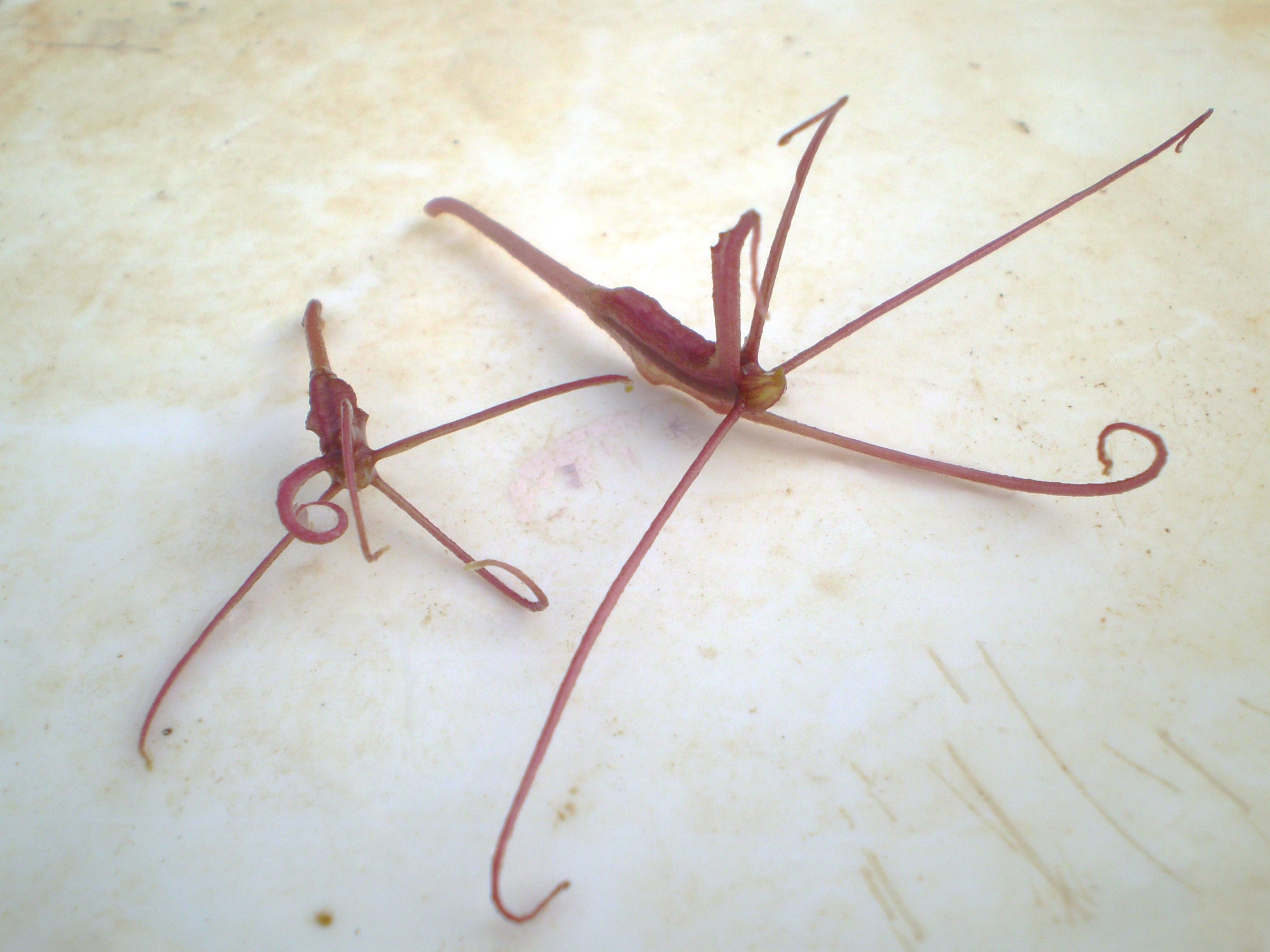 Seeds of Trapella sinensis